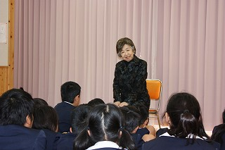 A picture that Miki Sakurai, a Japanese storyteller, is telling stories to children.